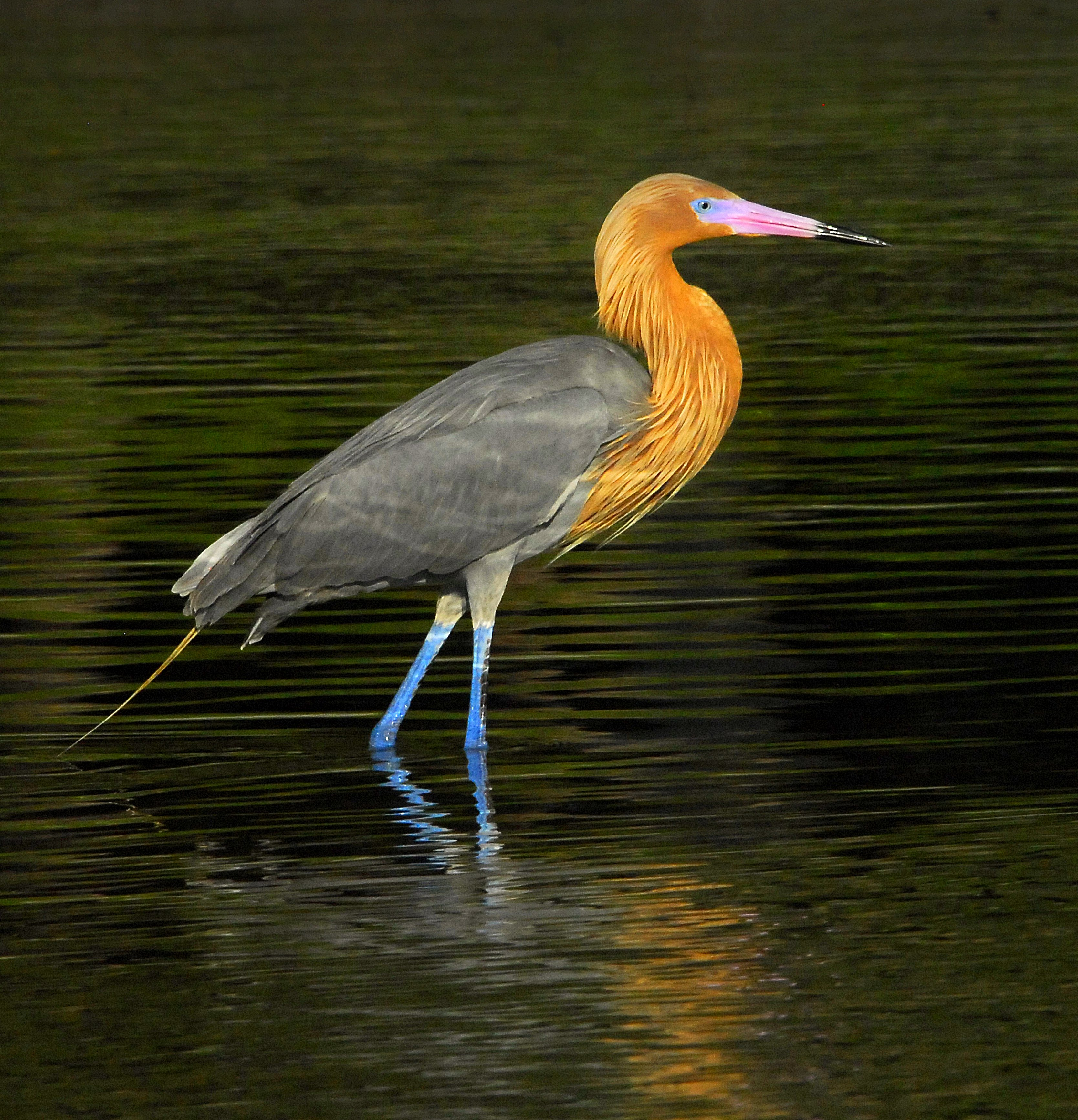 Reddish Egret at Sunset